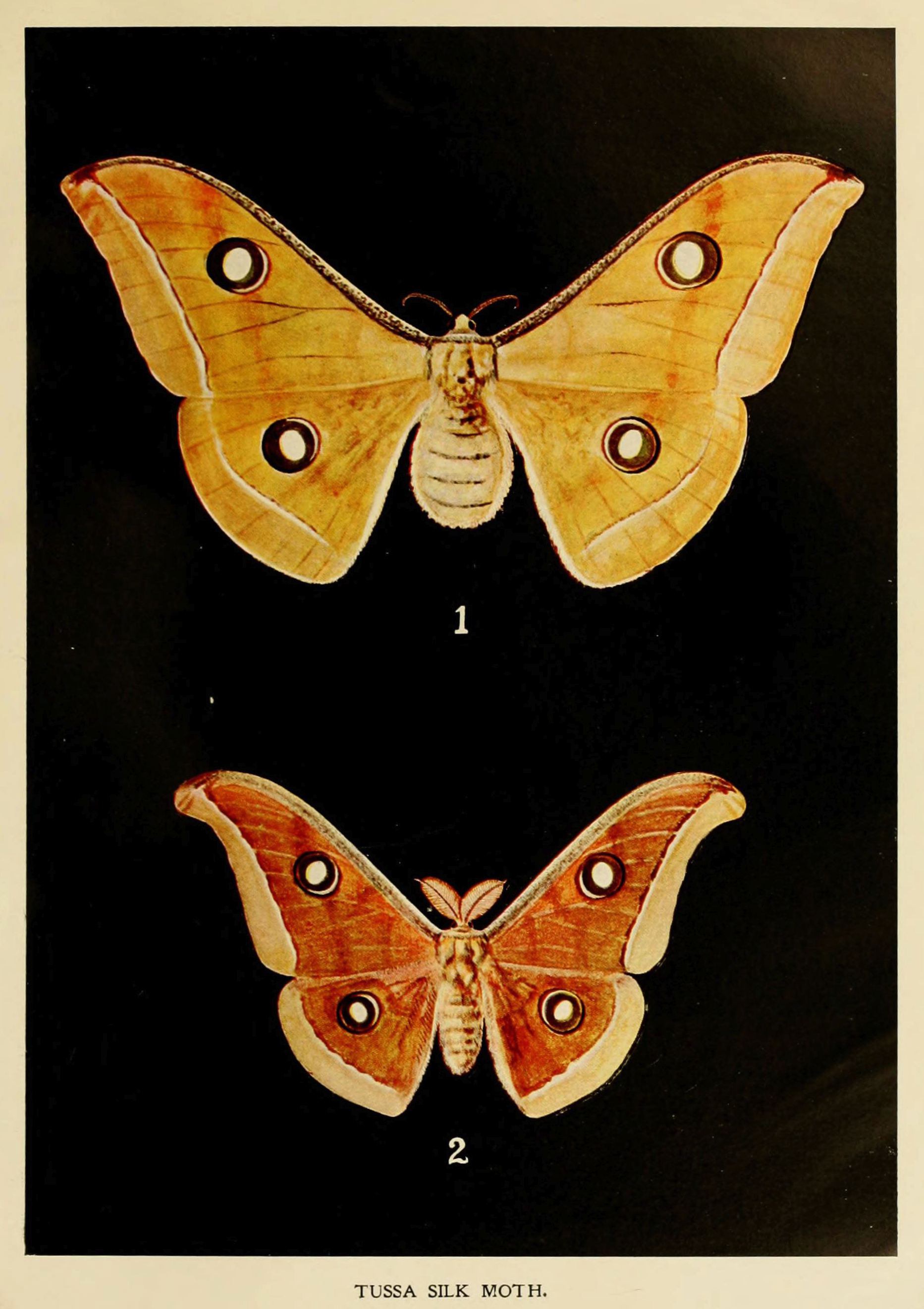 Picture from book Indian Insect Life: a Manual of the Insects of the Plains by Harold Maxwell-Lefroy.